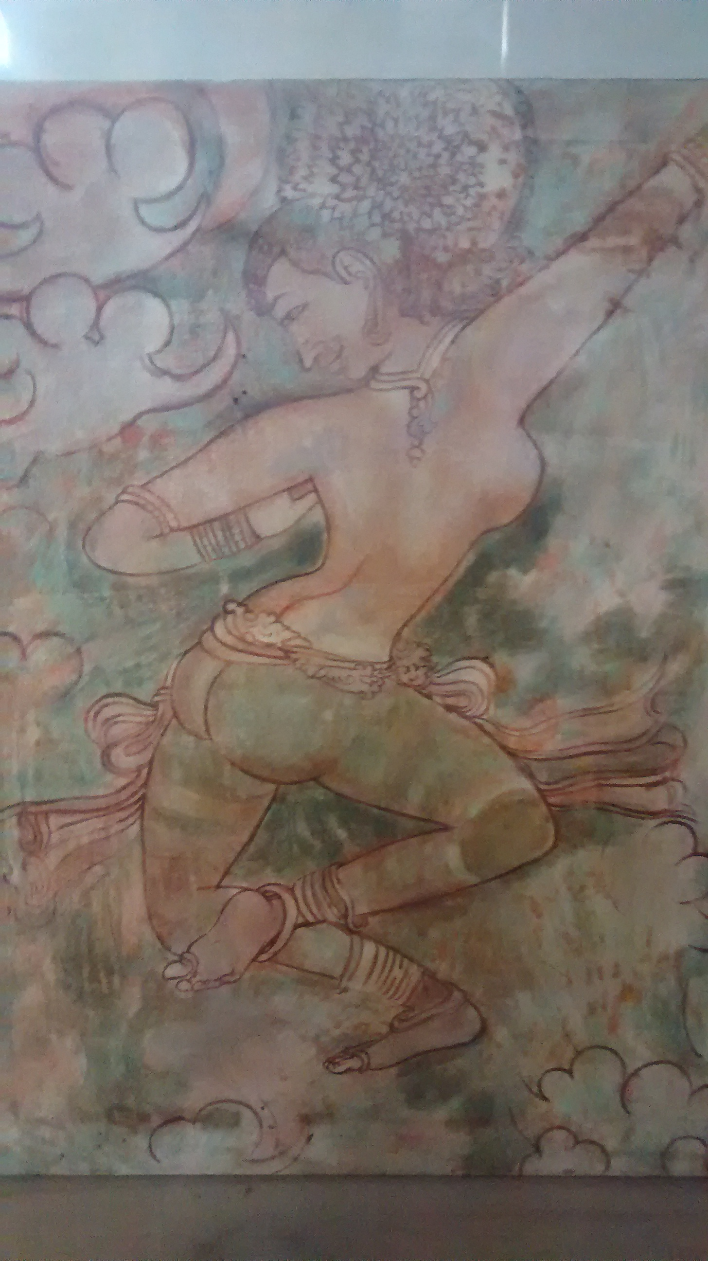 Sithanavaasal Paintings in Thirumal Naicker Mahal Museum, Madurai, Tamil Nadu